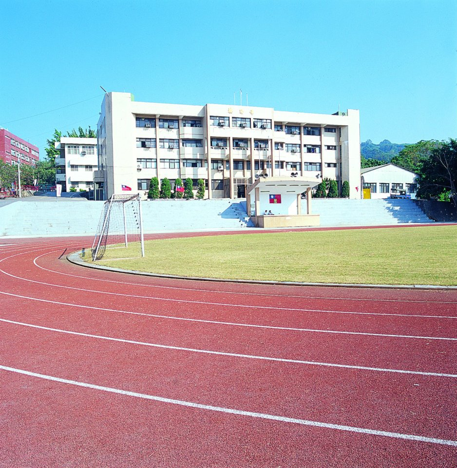 約中州技術學院中期-操場（現今綜合體育館位置）